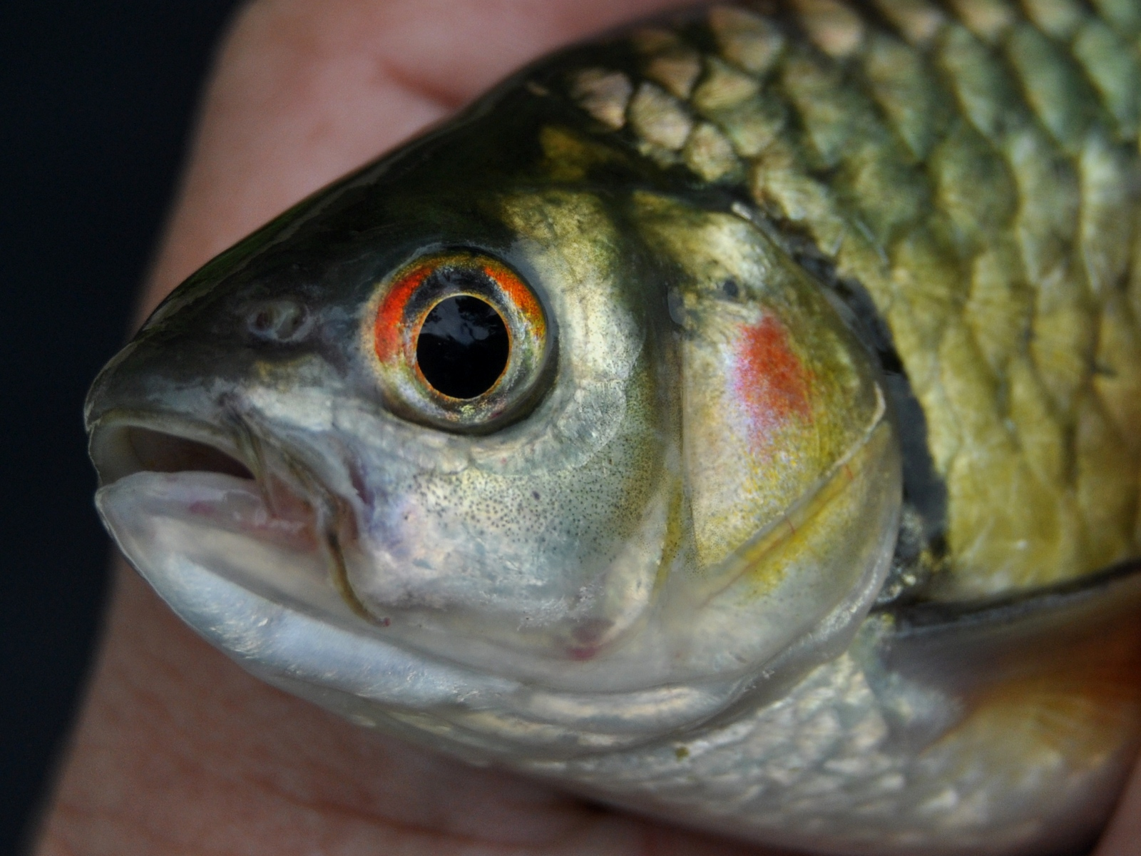 Javaen barb (Puntius orphoides), 132 mm SL; from Tasikmalaya, West Java, Indonesia. Sideview of head.